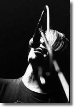 Dale Flattum playing live with Steel Pole Bath Tub